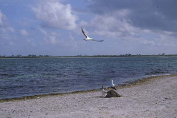 Masked Boobies (Sula dactylatra) on the shore of salty lagoon on Manra (formerly Sydney) Island, Phoenix Islands, Kiribati. Original field notes:Masked Boobies are large, with heavy serrated bills, and able to ward off marauding feral cats and Polynesian rats, although it takes much energy to do this. Masked Boobies are thus able to survive here, whereas many other seabirds are not, especially the smaller, ground-nesters.